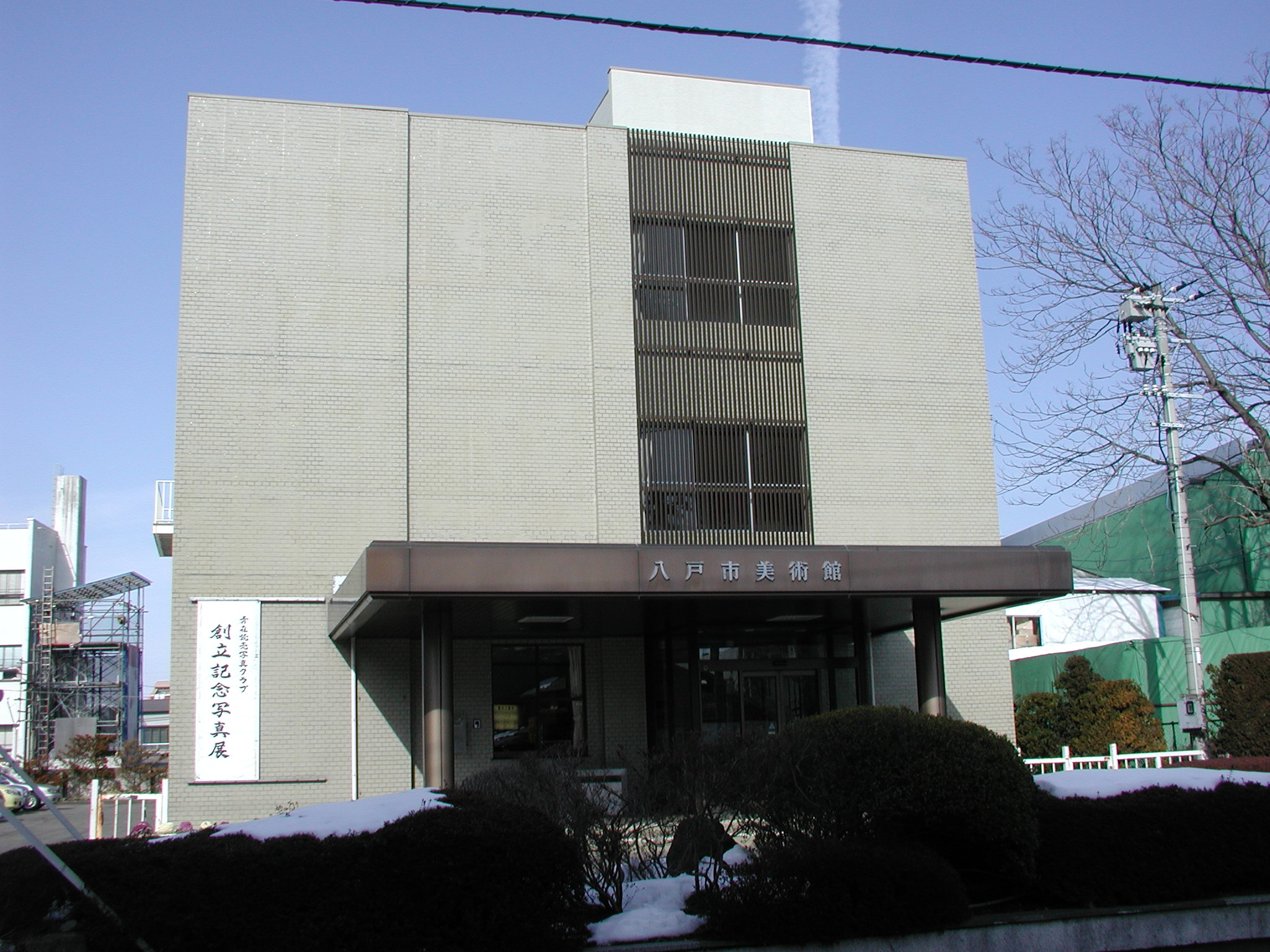 Hachinohe City Museum of Art